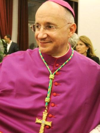 Archbishop Jean-Marie Speich, Titular Archbishop of Sulci, Apostolic Nuncio.